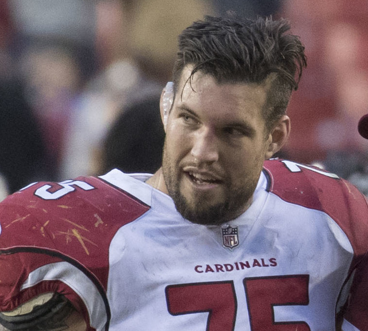 Cardinals at Redskins 12/17/17